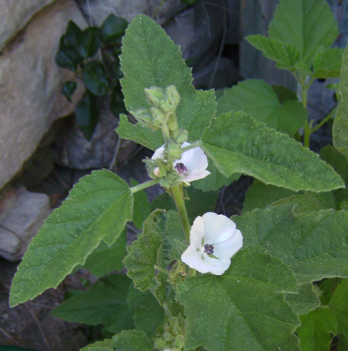 Althaea officinalis flowering in Castelltallat, Catalonia